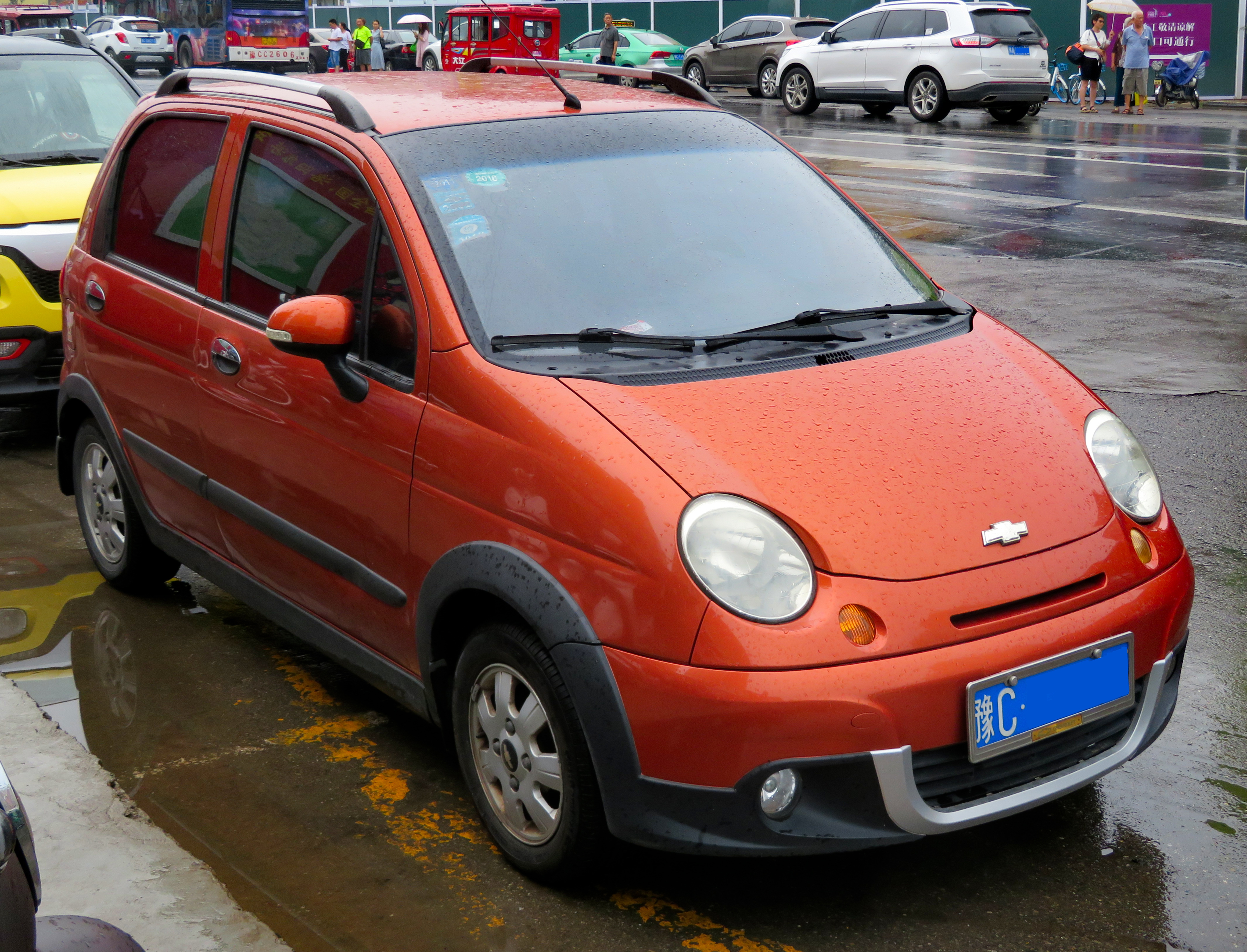 A 2010 SAIC-GM-Wuling Chevrolet Spark (Lechi) Cross photographed in Xigong District, Luoyang, Henan province, China